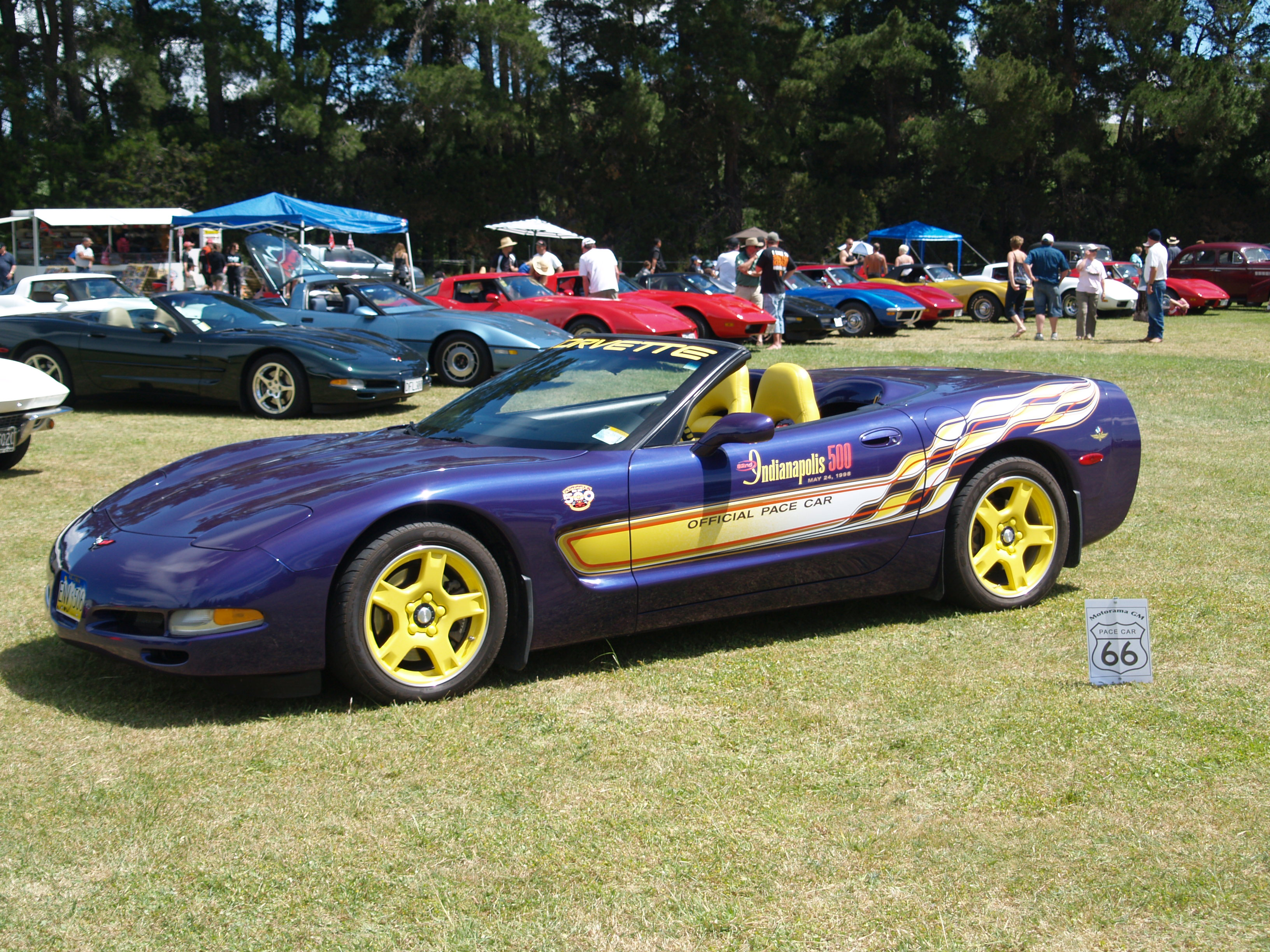 View LARGE to read writing I do not know how it ended up here in New Zealand